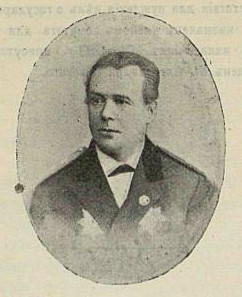 The Russian sociologist Paul Lilienfeld-Toal.